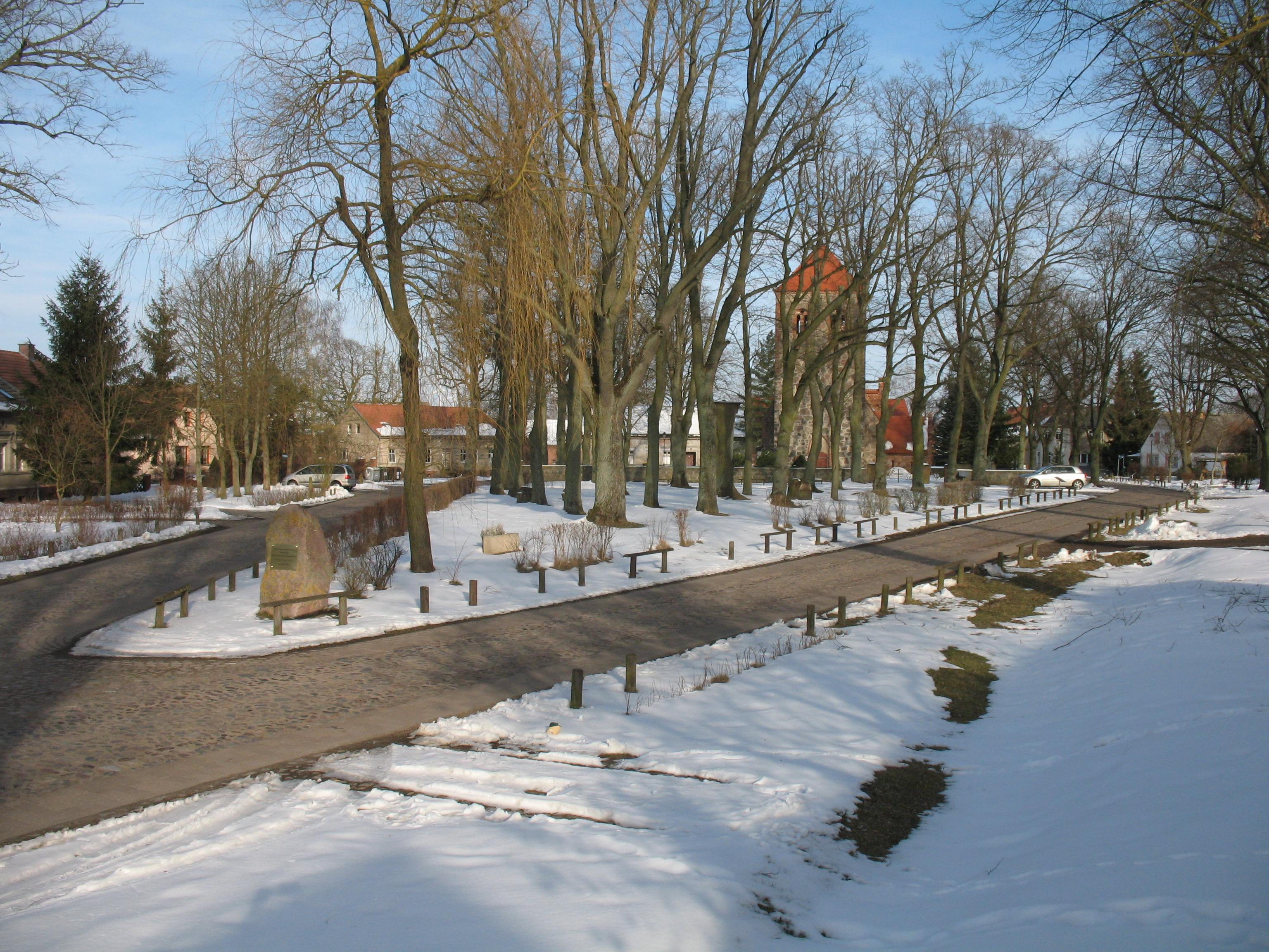 Rundling Gransee-Buberow in Brandenburg, Germany